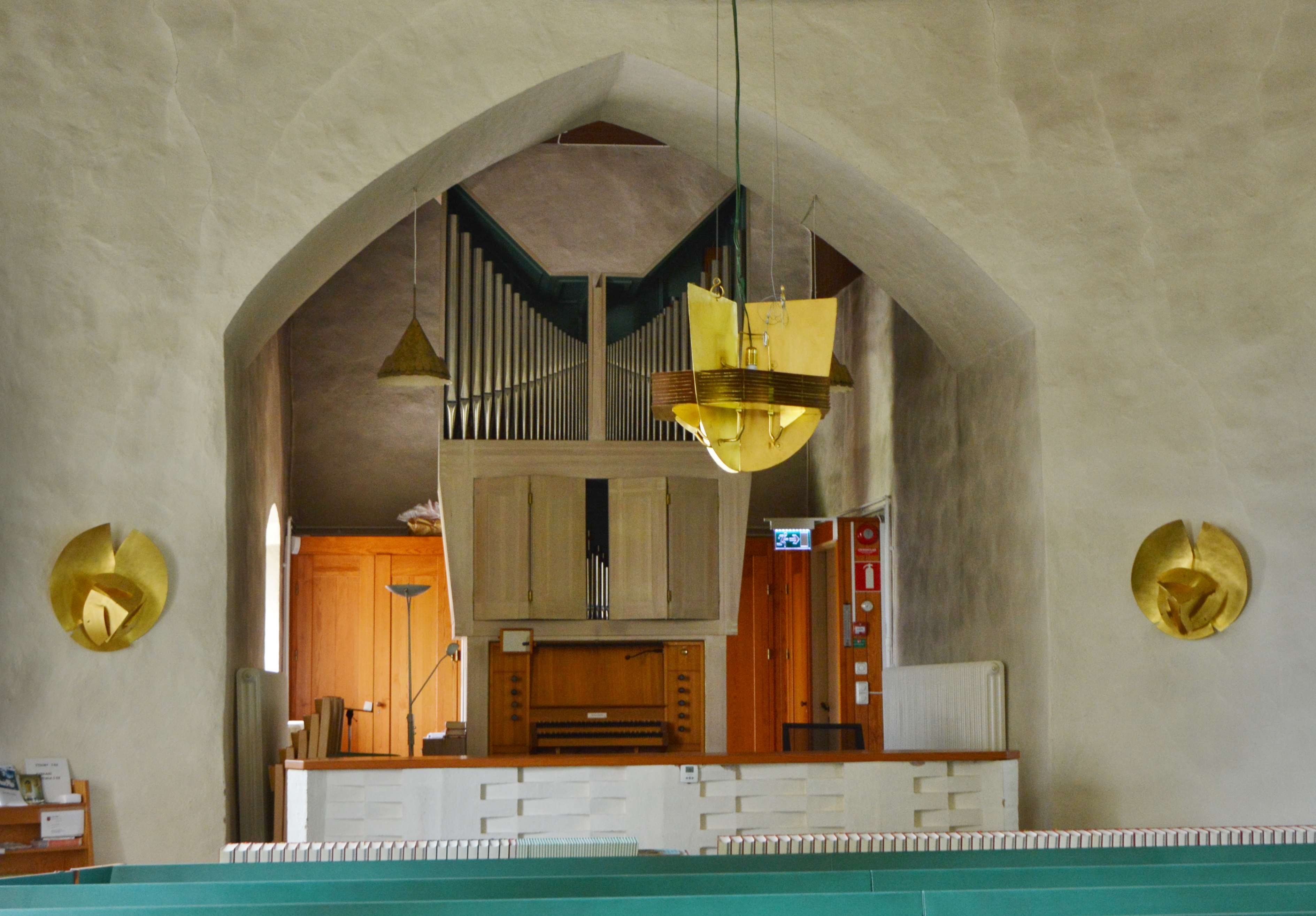 Voxtorp Church.Organ